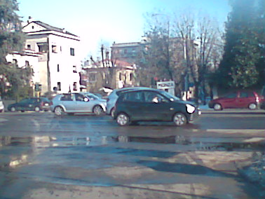 ss 36